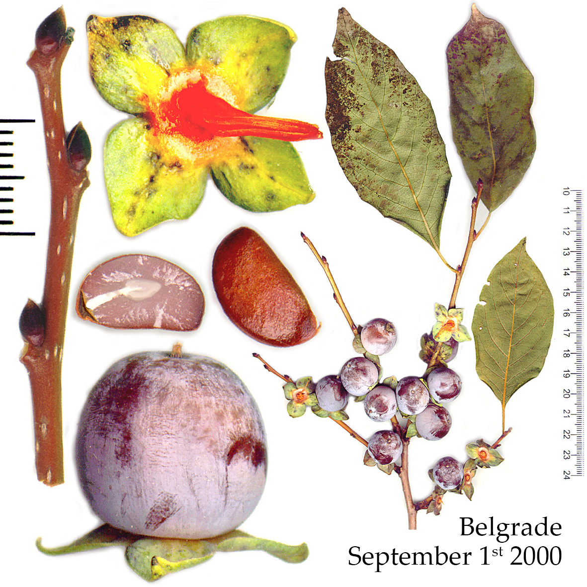 Complete seed maturity of Diospyros lotus